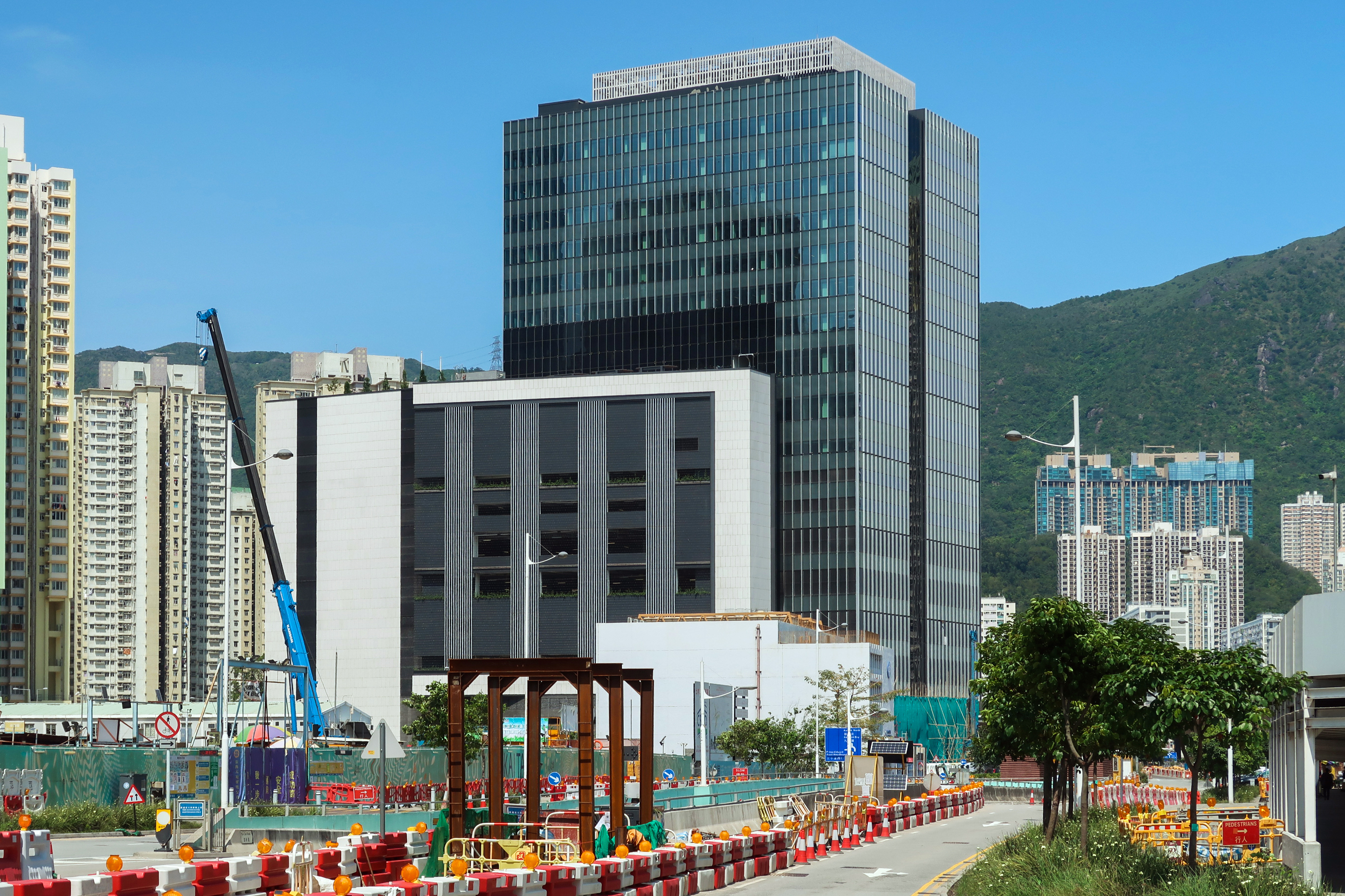 Kowloon East Regional Headquarter